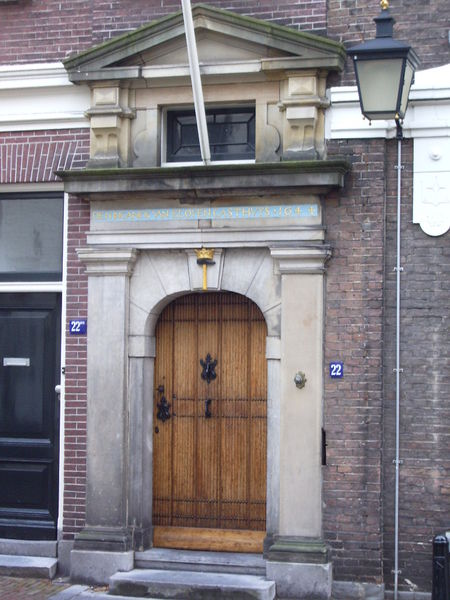 Ingang Sint Eloyen Gasthuis, a guildhall in Utrecht, Netherlands